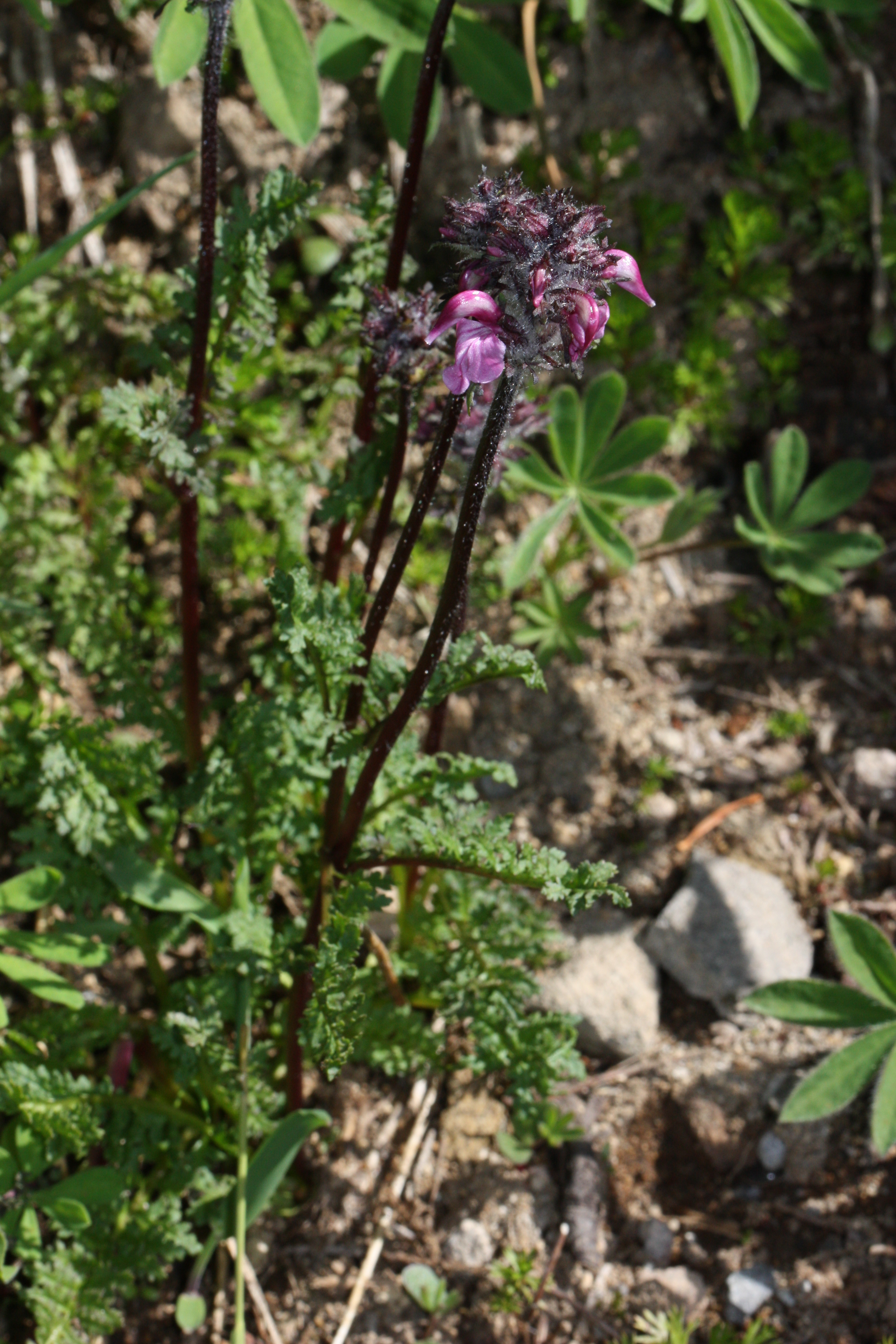 Ducksbill Lousewort, Bird's Beak Lousewort